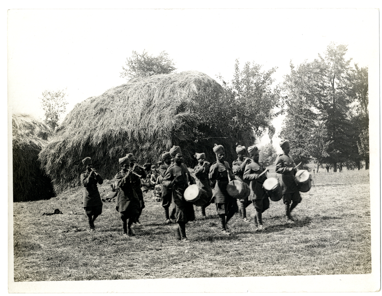 Dhol & Sarnai band playing the Marseillaise to a French audience on a farm [St Floris, France].